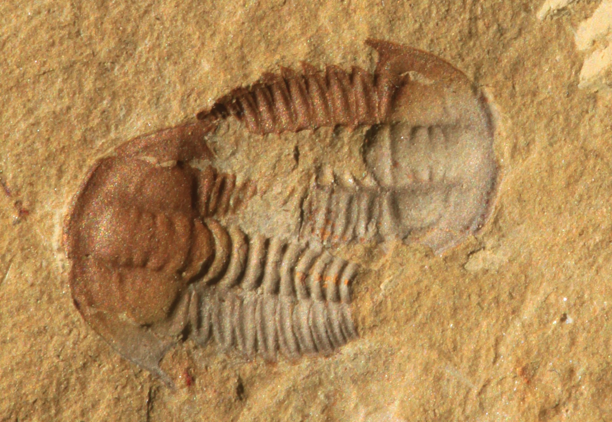 A Palaeolenus douvillei trilobite, Order Ptychopariida, Family Palaeolenidae, 7mm along the axis, collected near Guanshan, Yunnan, China, from the Lower Cambrian (Stage 4?)